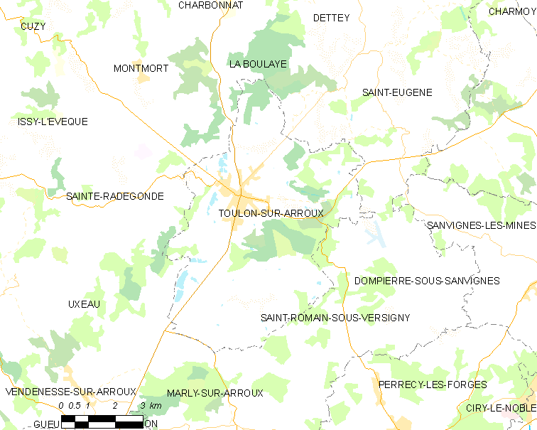 Map of French municipality